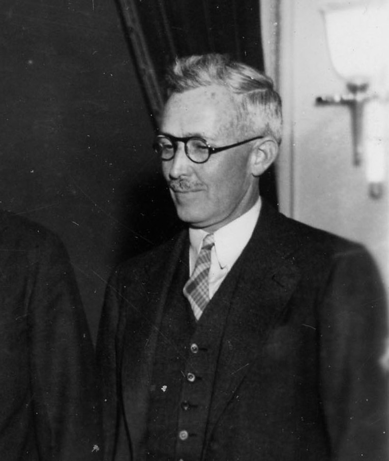 President Franklin D. Roosevelt signs the Gold Bill on January 30,1934 Photo Credit: Underwood & Underwood --Franklin D. Roosevelt Presidential Library and Museum